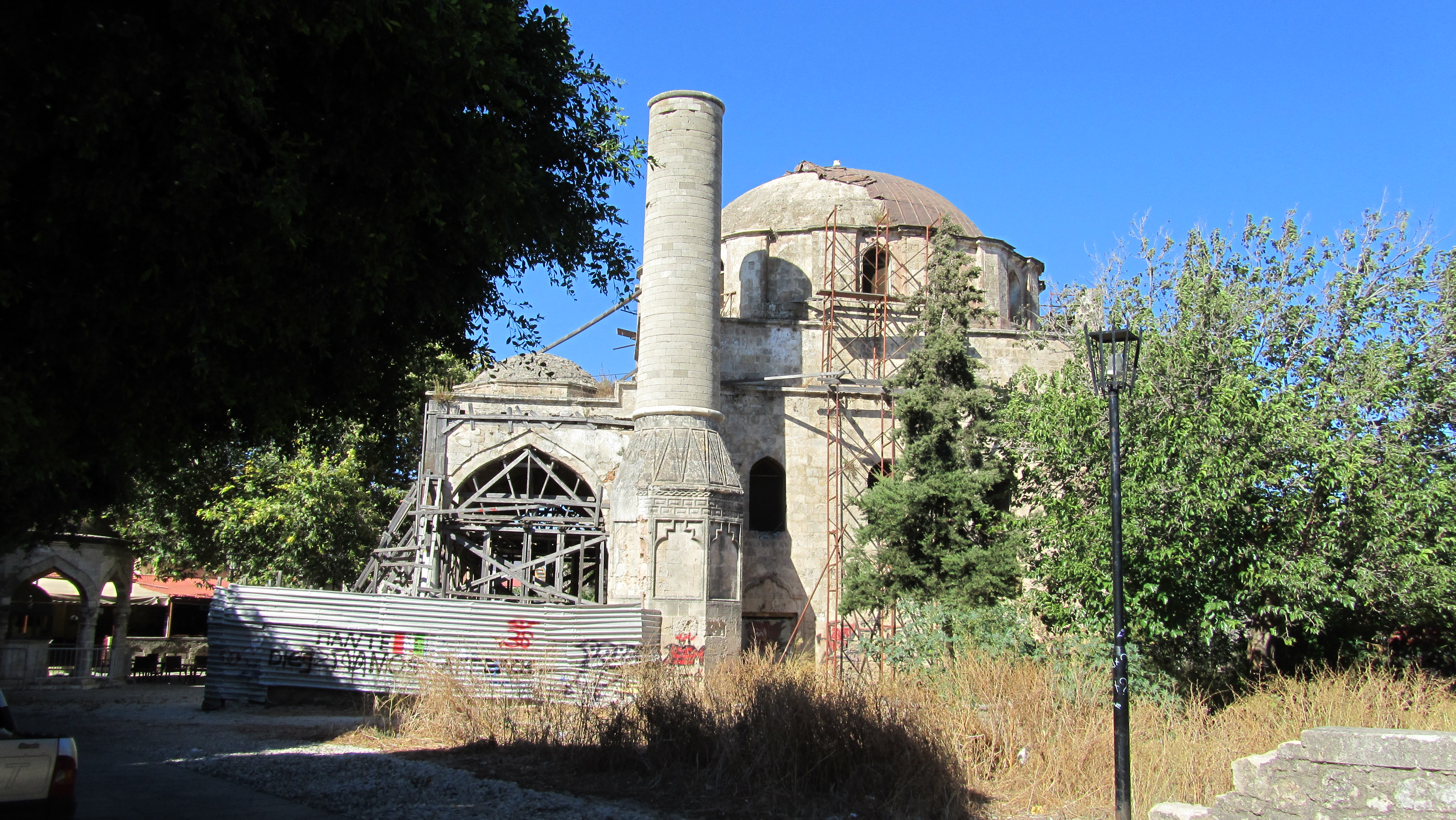 Old mosque of Rhodes old Town